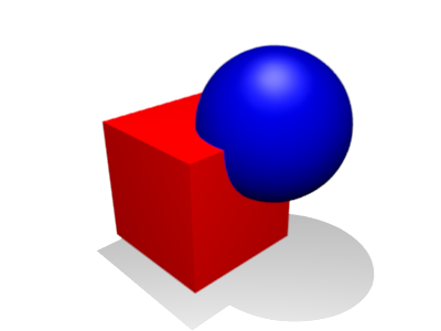 A Boolean Union operation on a cube and a sphere. Modeled and Rendered in Blender. Made by Captain Sprite 22:11, 6 August 2006 (UTC).